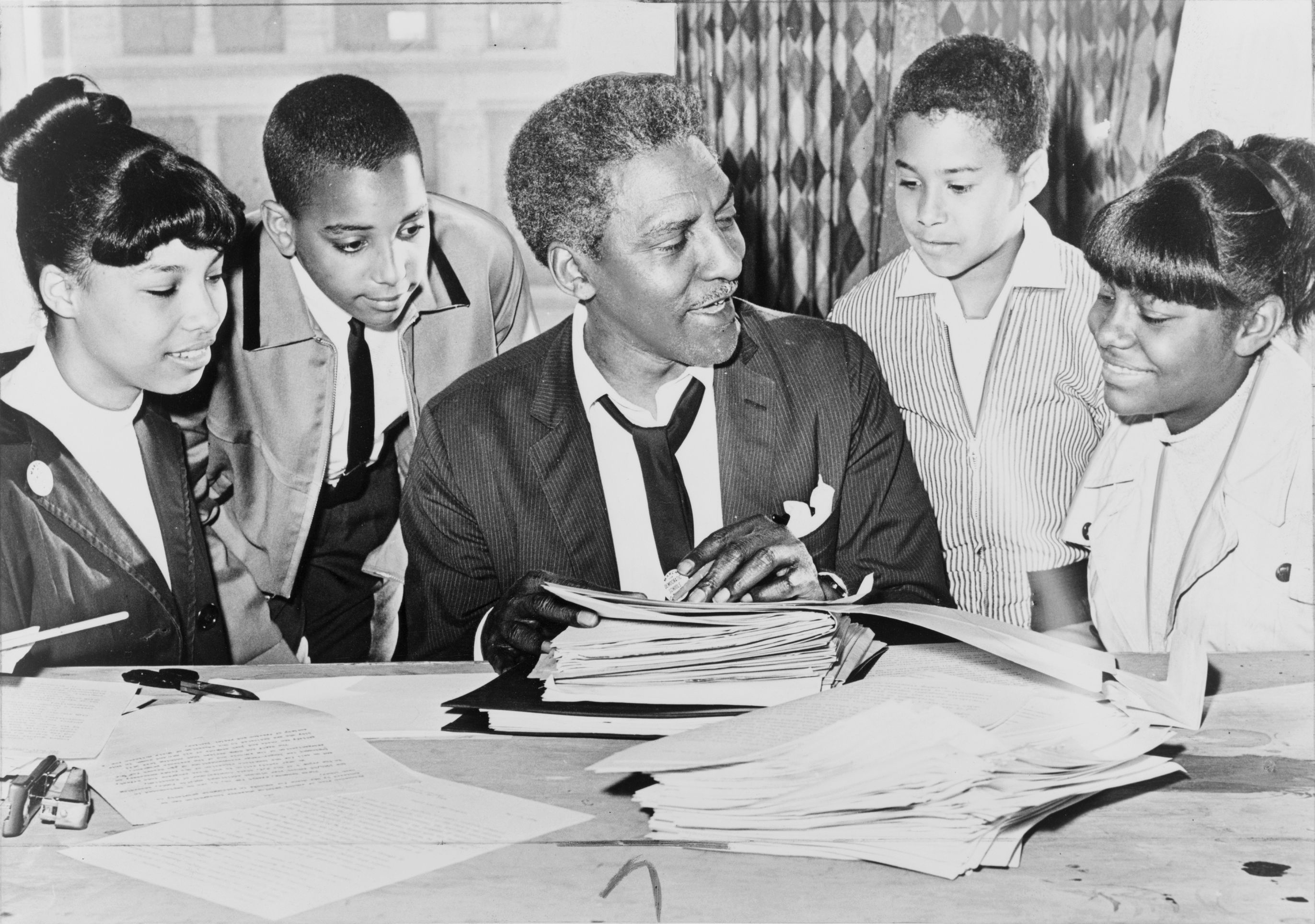 Bayard Rustin (center) speaking with (left to right) Carolyn Carter, Cecil Carter, Kurt Levister, and Kathy Ross, before demonstration / World Telegram & Sun photo by Ed Ford.